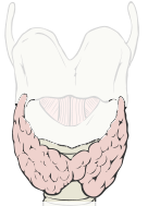 Thyroid Ready